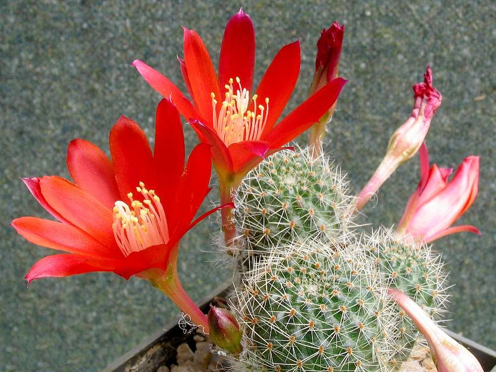 Rebutia deminuta (Rebutia spegazziniana) - cultivated plant (seed marked SE66A) from own collection.